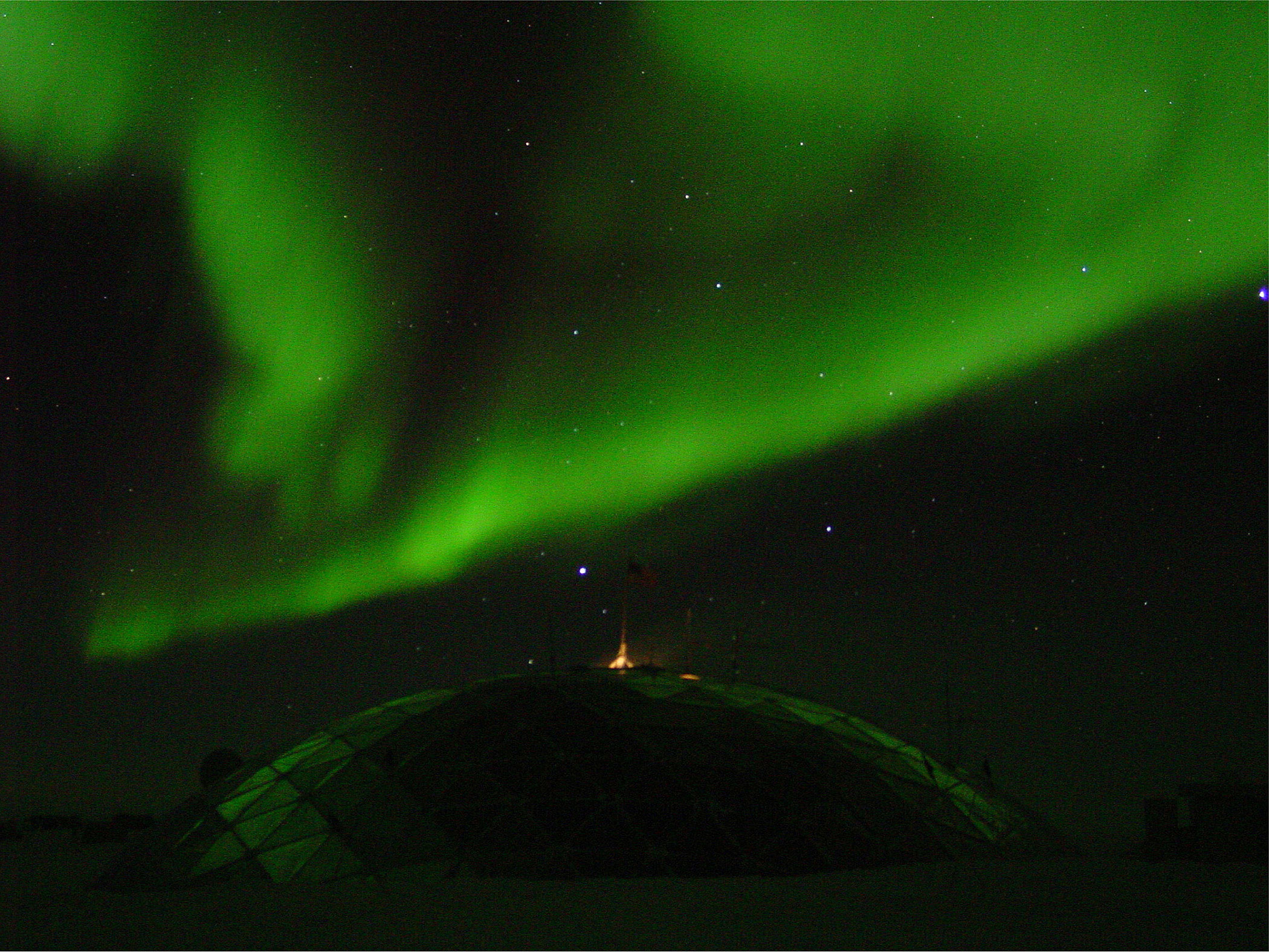 Amundsen-Scott South Pole Station's geodesic dome in the aurora australis.